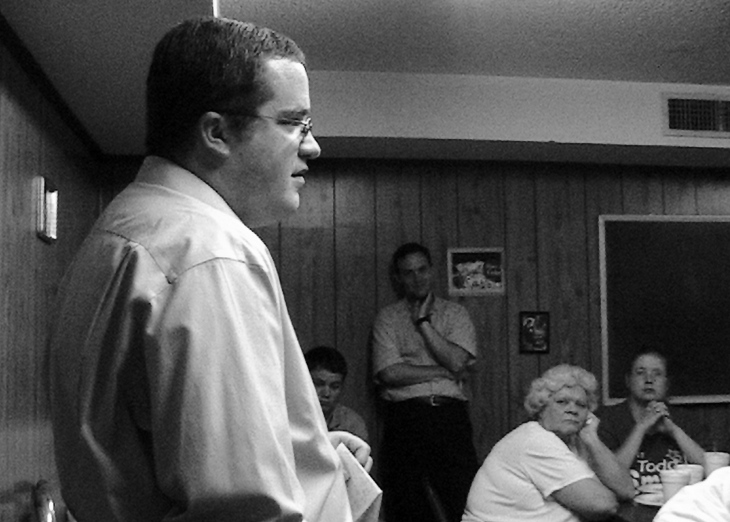 Author = Bee Cliff River Slob Tennessee House of Representatives 7th House District candidate Matthew Hill speaking during a 8 July 2007 Republican primary debate at the Jonesborough Pizza Parlor.